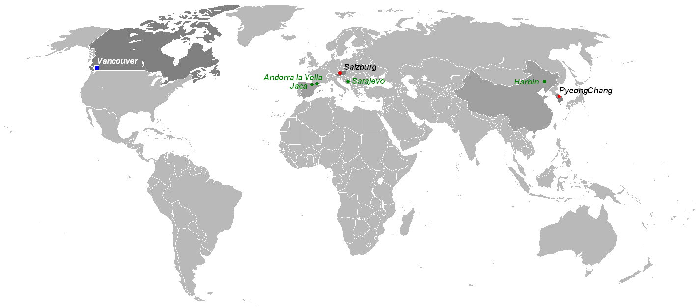 The candidate cities to host the 2010 Winter Olympics, derived from blank world map. Green : Applicant cities Black: Candidate cities